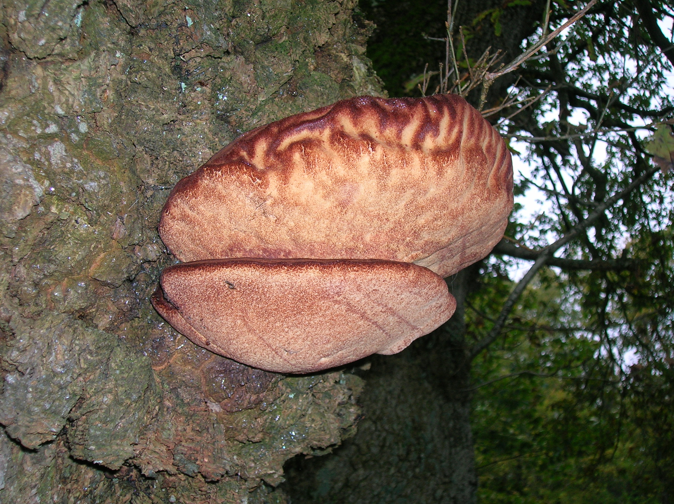 Fistulina hepatica on an old Quercus robur, Friar's Carse, Auldgirth, Scotland. On the bank of the River Nith.